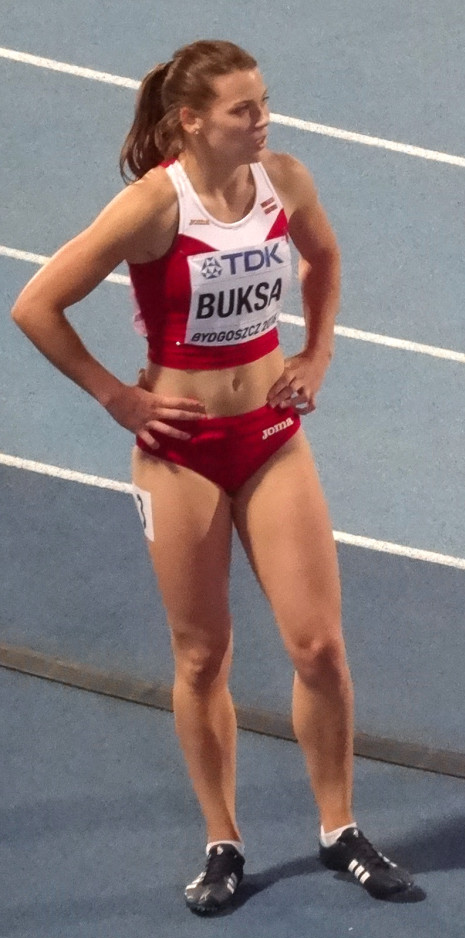 2016 IAAF World U20 Championships in Bydgoszcz, 200m women semi-final